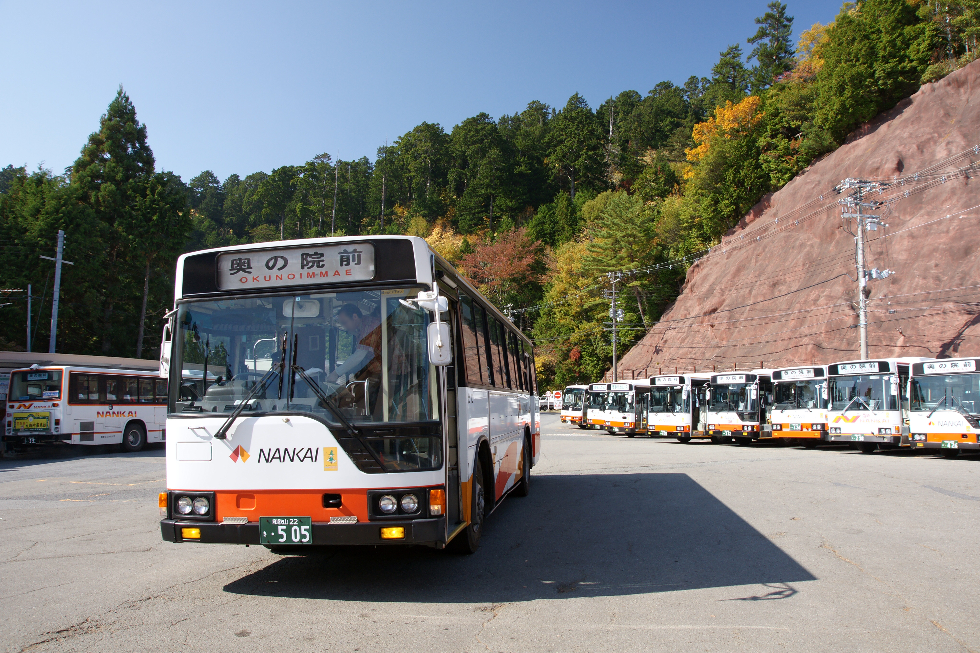 in front of Koyasan Station in Mount Kōya, Koya, Wakayama prefecture, Japan.